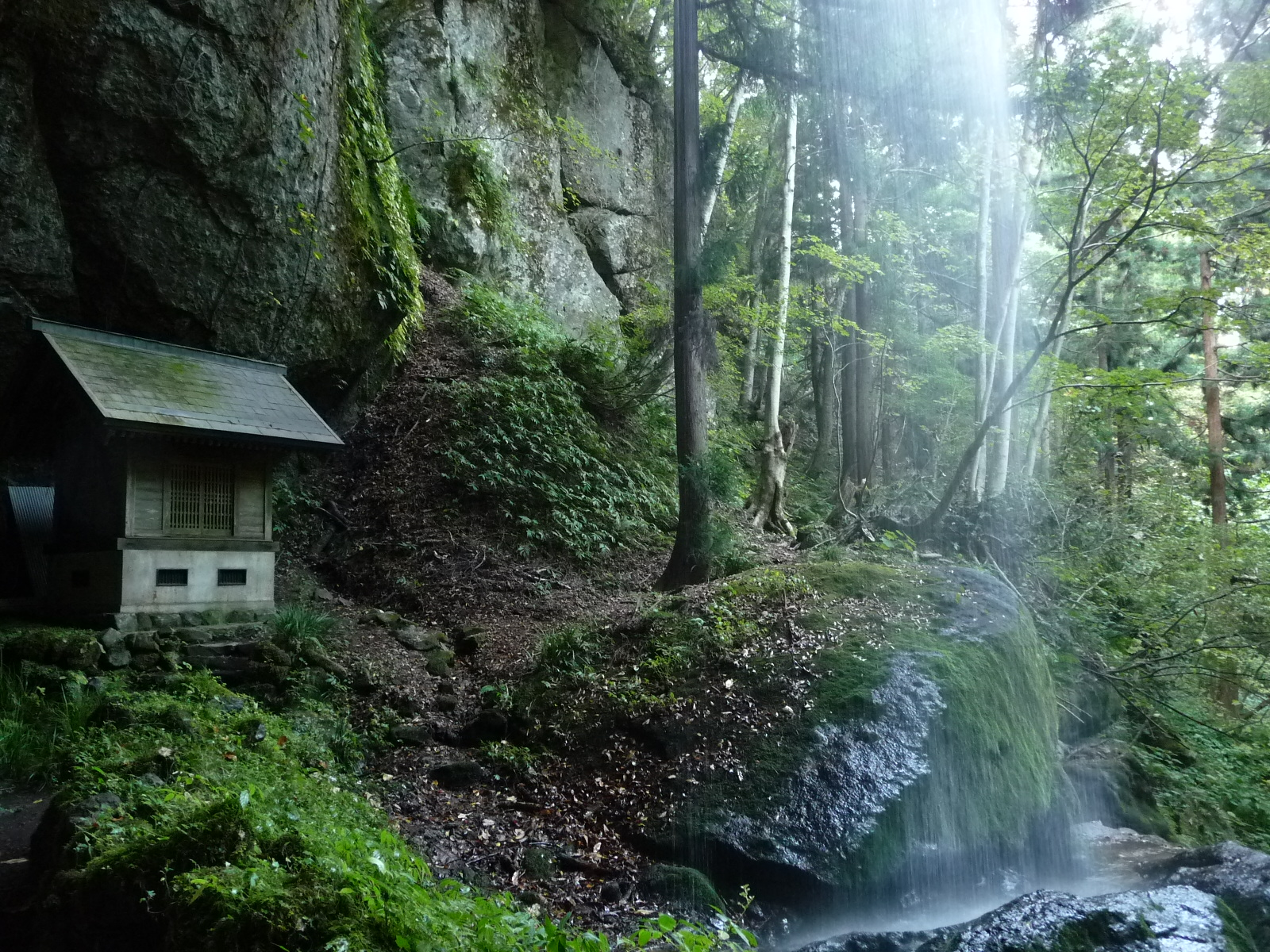 Yoshitaki Fall in Ojiro, Kami Town, Hyogo Prefecture.